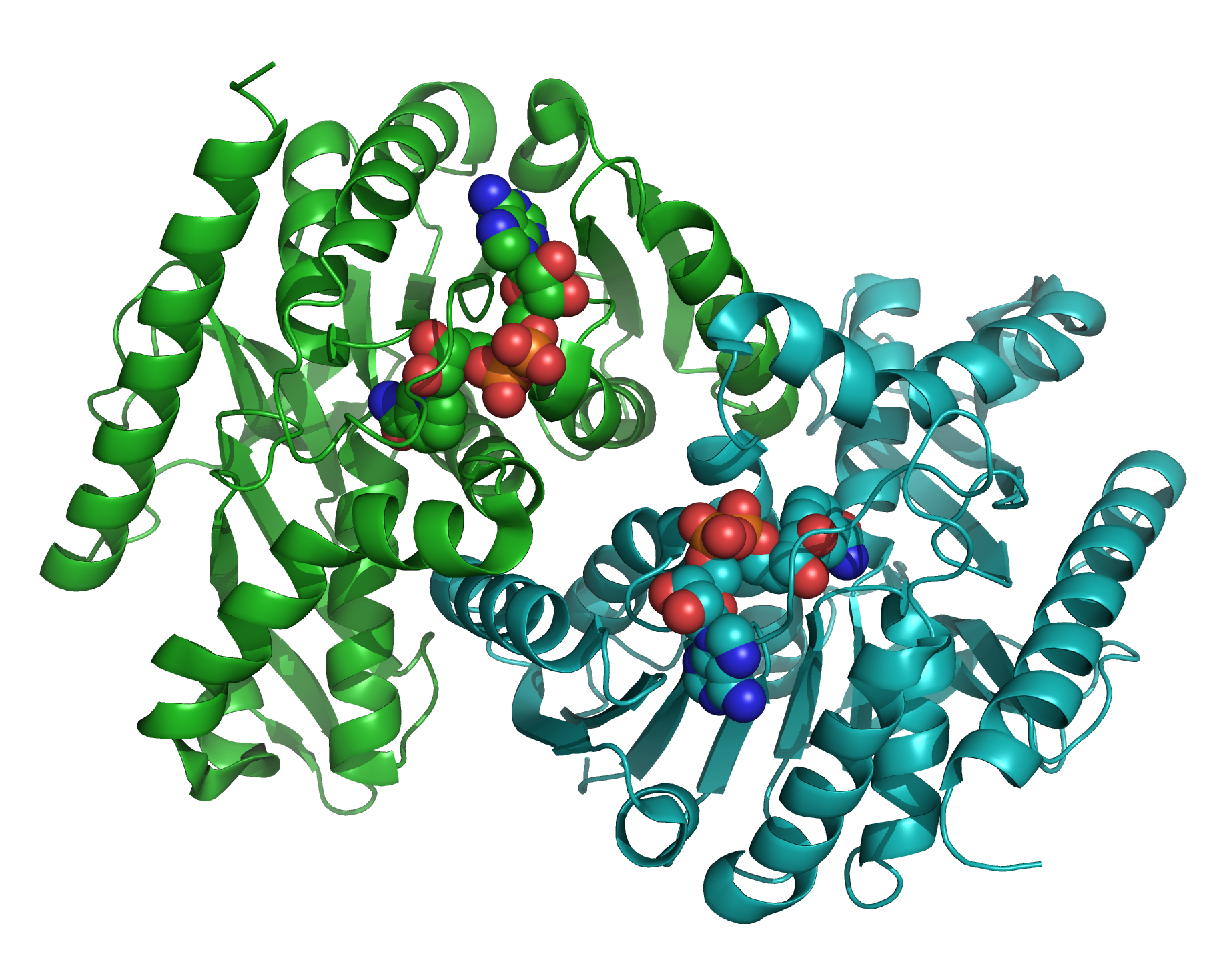 ribbon model of malate dehydrogenase (MDHC) dimer from the pig (Sus scrofa) with NAD as balls, after PDB 4MDH. Ref: J.J.Birktoft et al. (1989). Refined crystal structure of cytoplasmic malate dehydrogenase at 2.5-A resolution.. Biochemistry, 28, 6065-6081. PMID 2775751 [